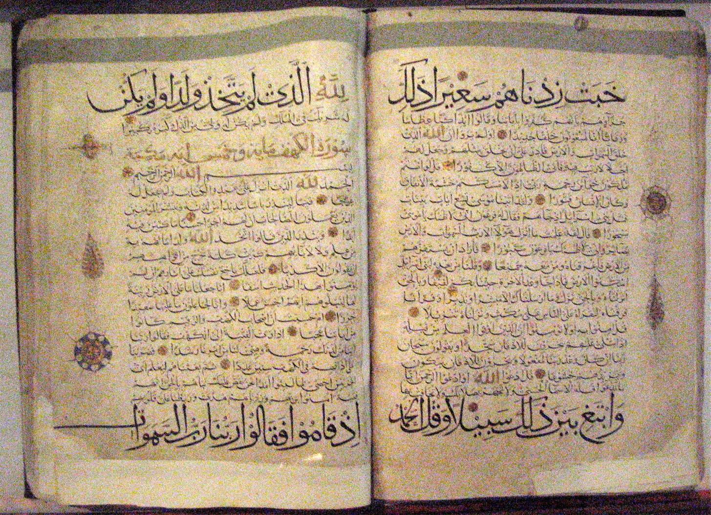 Quran in Naskh and Mohaqaq script, signé par Mohamad ibn massoud ibn sa'd abhari, Calligraphe et enlumineur, 1222. National Iran Museum, Tehran.